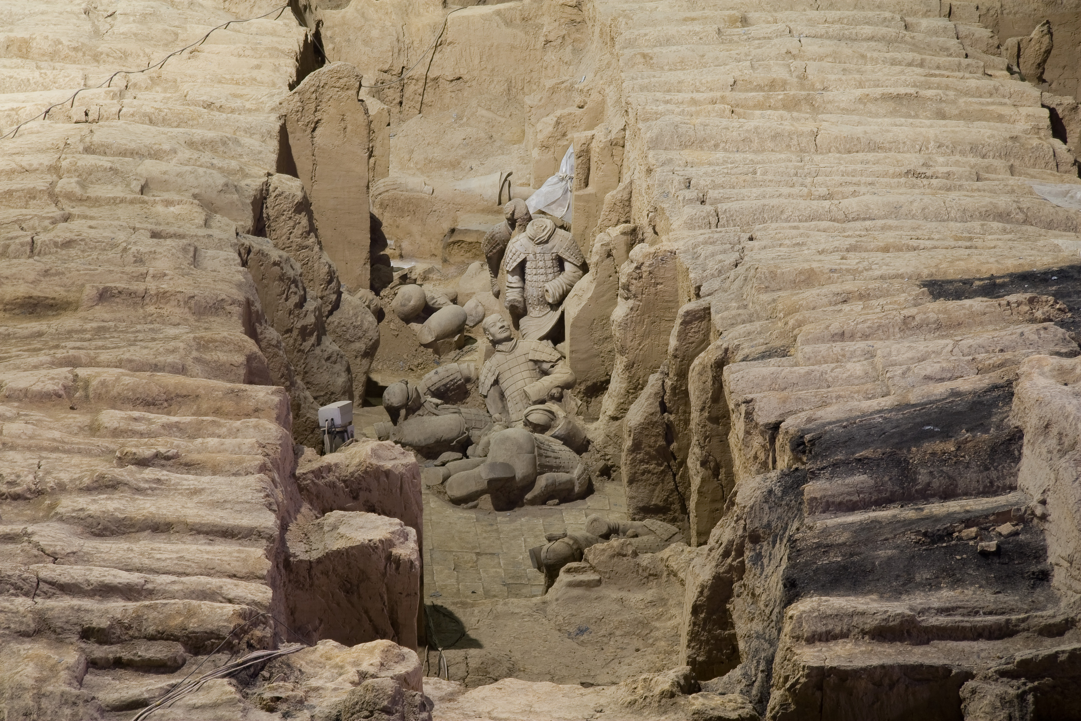 Terracotta Army - in Xi'an, China